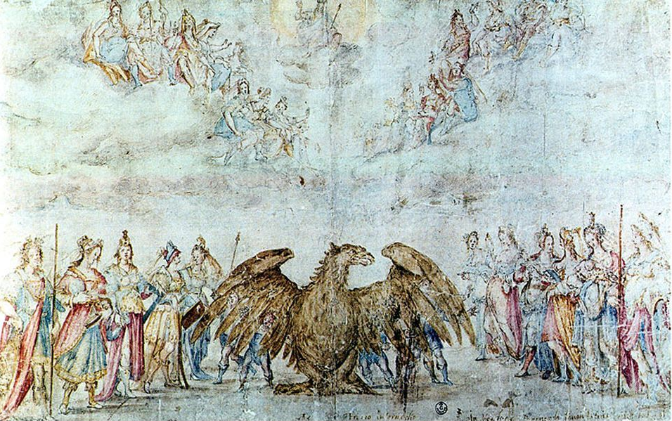 La pellegrina 1589 - Intermedio - Eagle